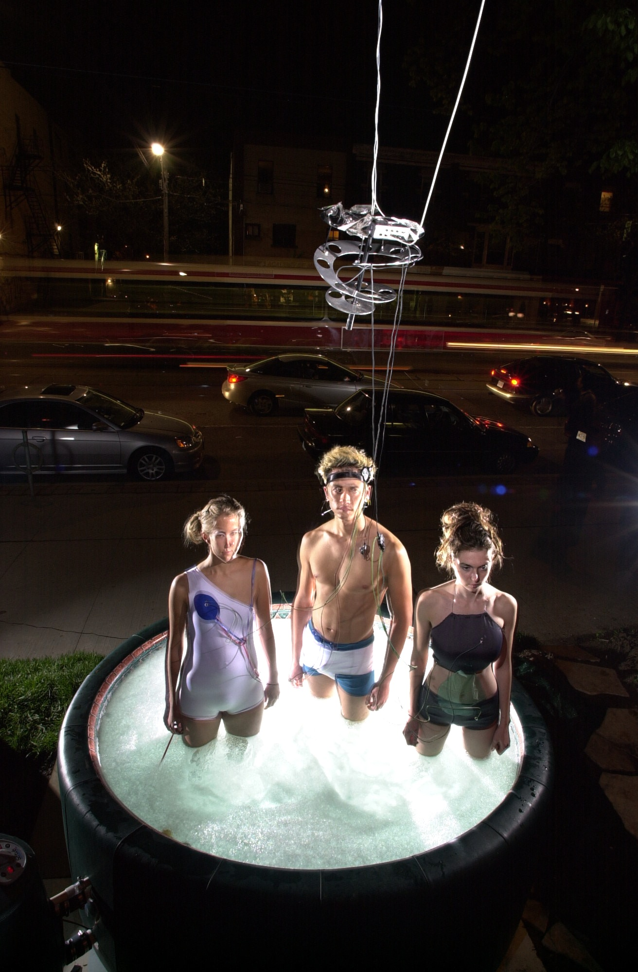 Underwater and water-based electrocardists with an electroencephalist